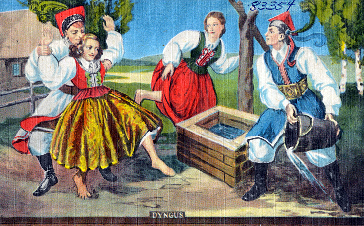 Postcard depicting Dyngus celebrations